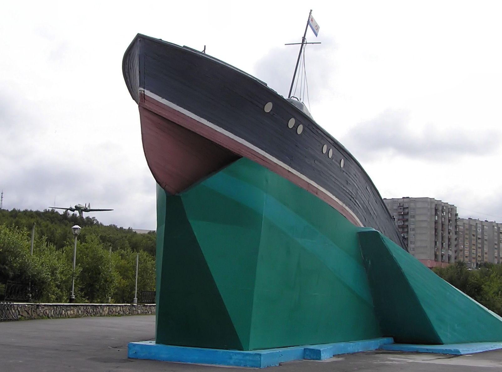 Torpedo boat ТКА-12. The city of Severomorsk of Murmansk area.